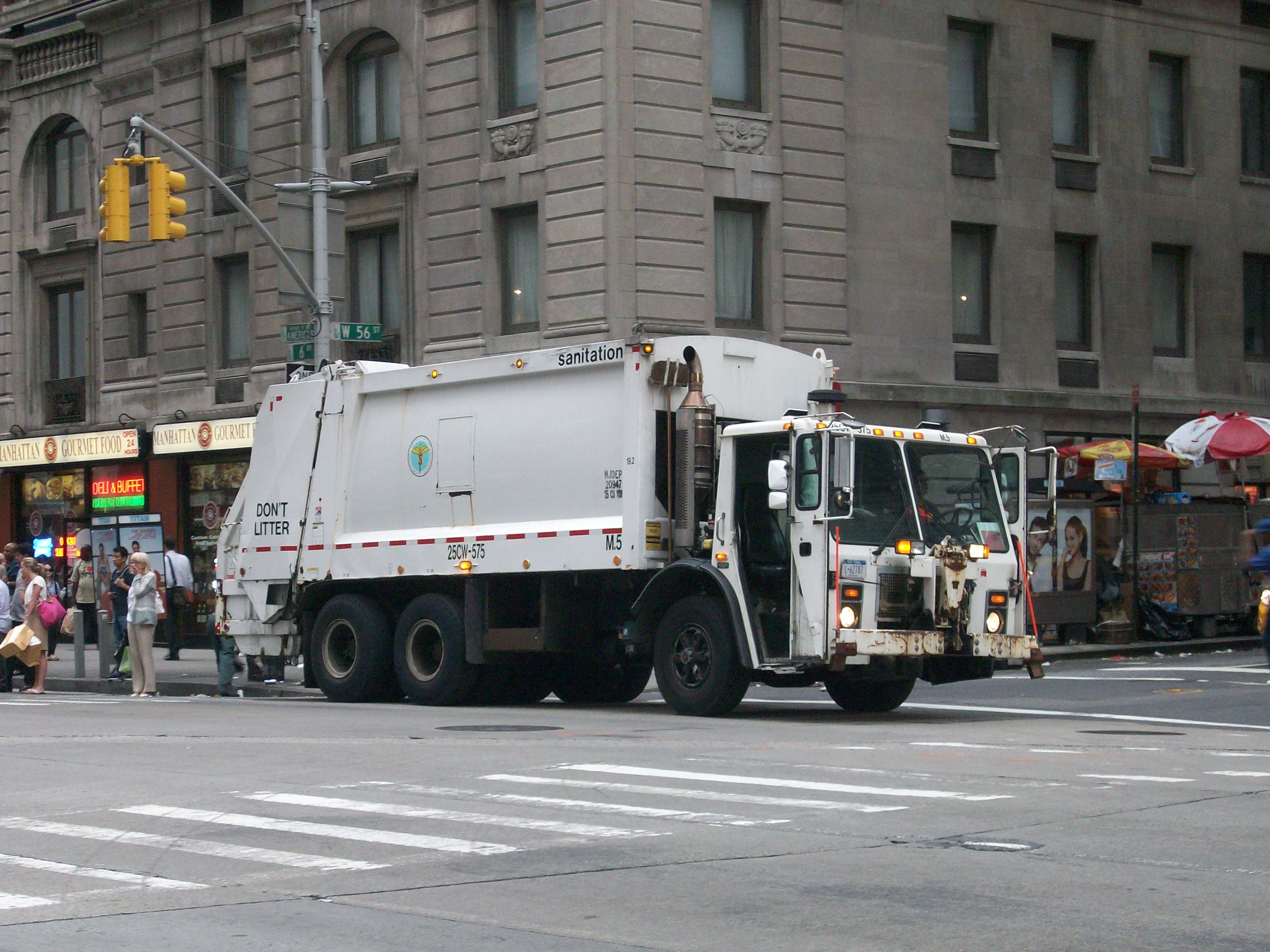 Looking west at waste collection truck, sanitation, New York city